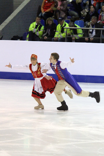 Justyna Plutowska and Dawid Pietrzynski perform a Polish original dance, wearing costumes from Kashubia (northern Poland), at the 2010 World Junior Championships.